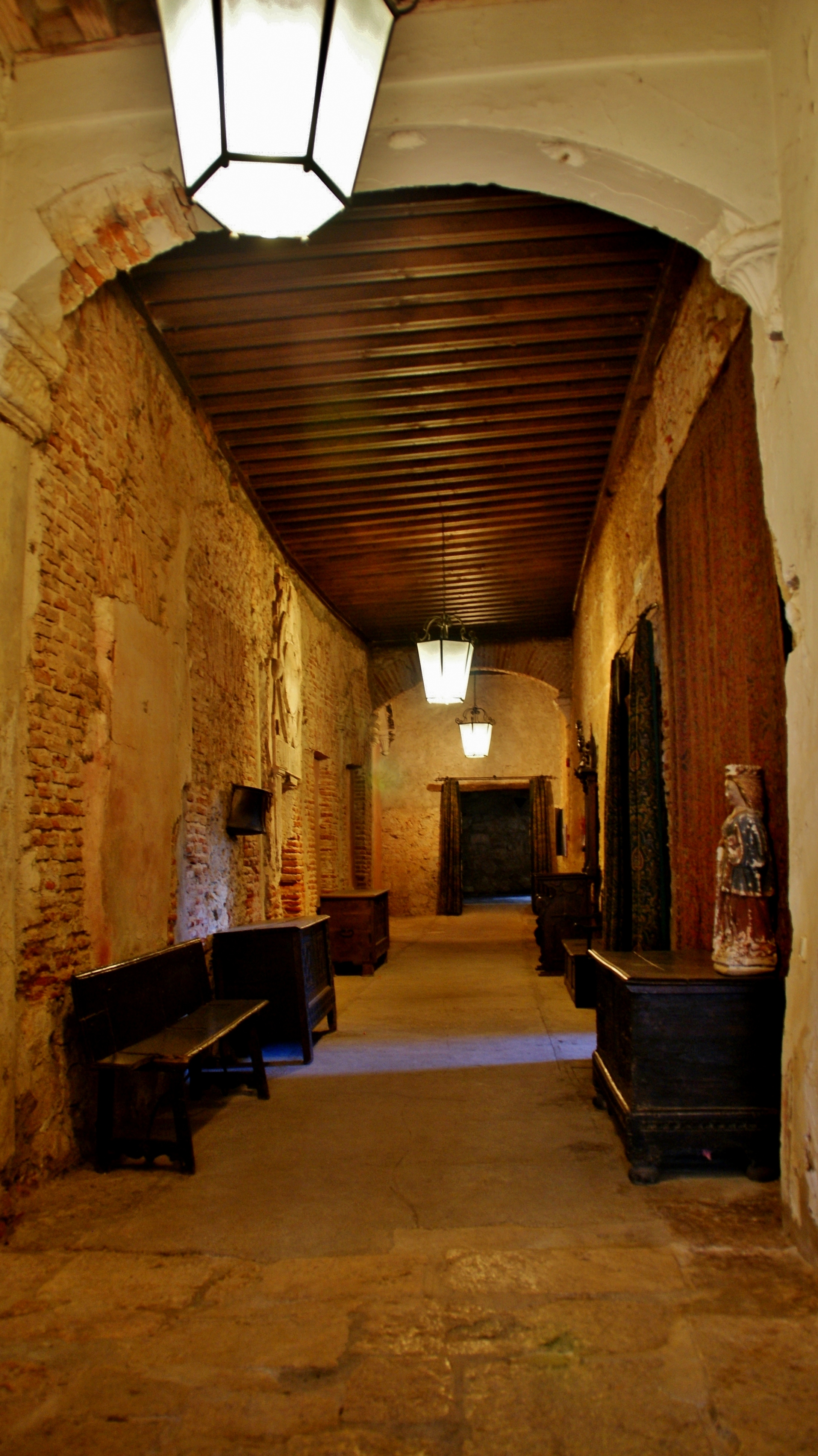 Monasterio de San Bartolomé, fue donde nació la Orden de San Jerónimo (O.S.H.). Edificado en 1474 sobre una ermita ya existente dedicada a San Bartolomé, que databa de 1330. Fue la casa madre de la Orden de San Jerónimo y fundado por Pedro Fernández Pecha y Fernando Yáñez de Figueroa. Lupiana, Guadalajara, Comunidad Autónoma de Castilla-La Mancha